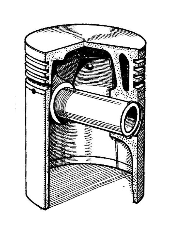 BHB Hiduminium piston (Autocar Handbook, 13th ed, 1935).jpg